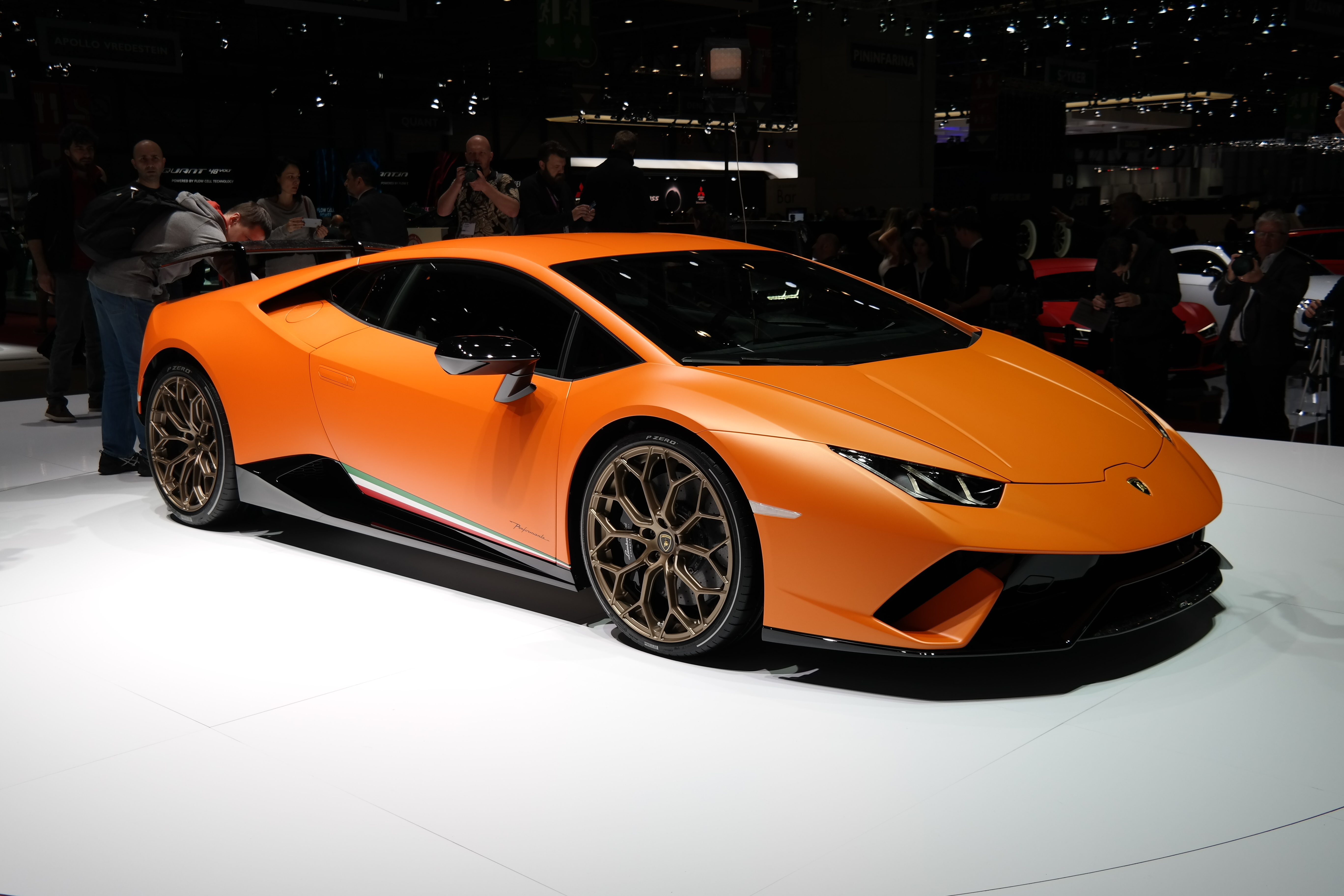 Geneva Motor Show 2017 (photo taken on the first press day)